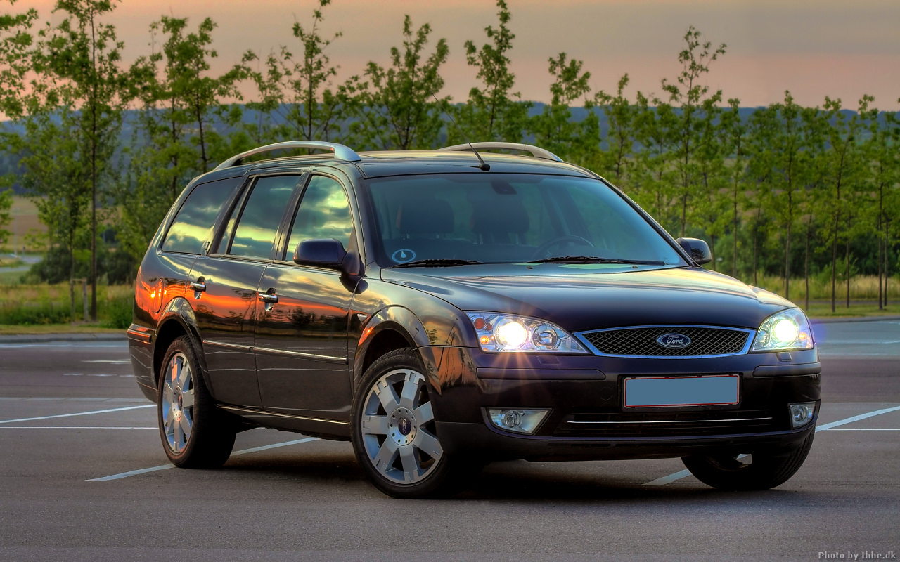 Ford Mondeo 2.0 TDCi 130 Ghia X More photos here: [1]